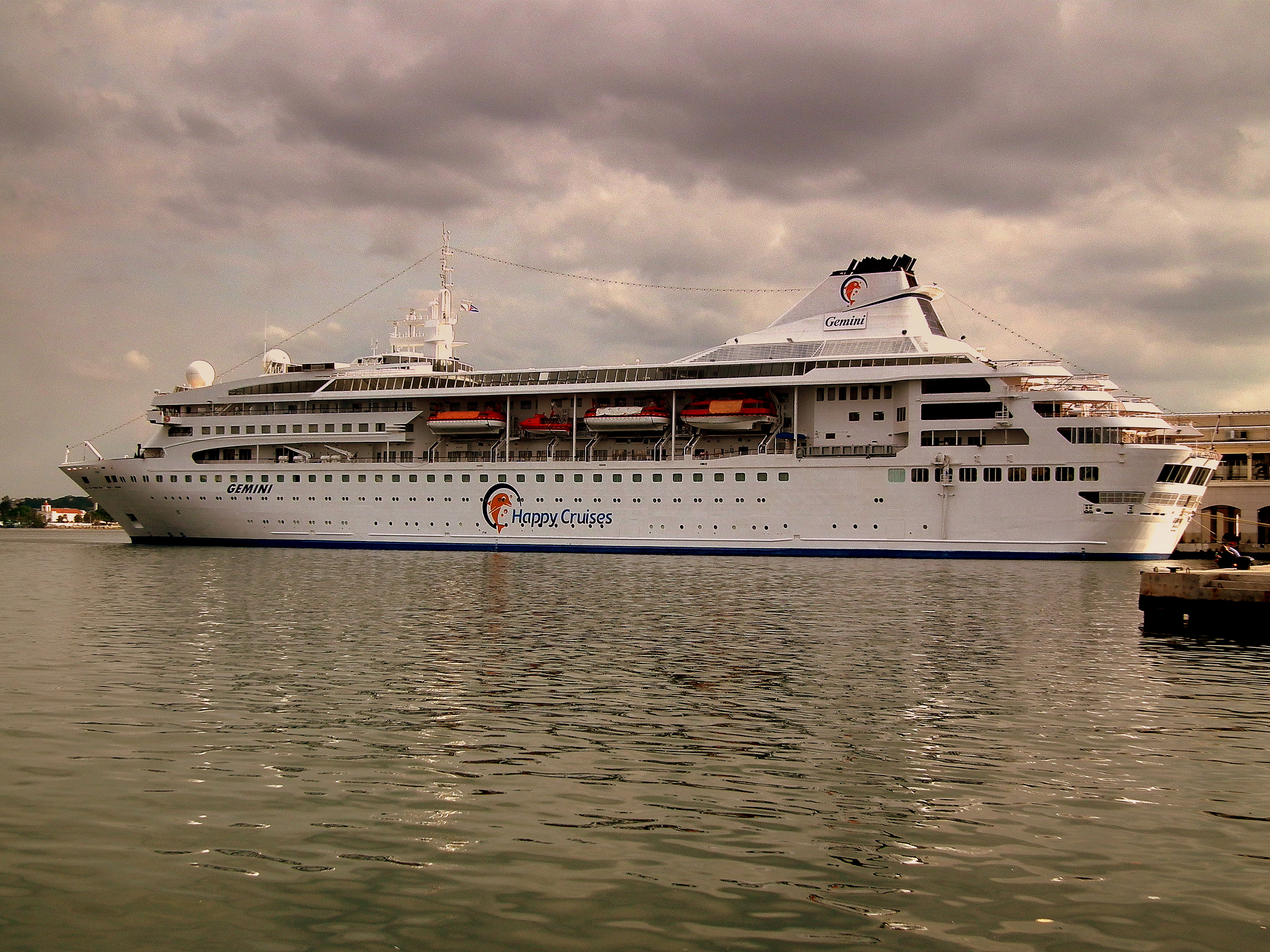 Gemini Cruise, Havana Harbor